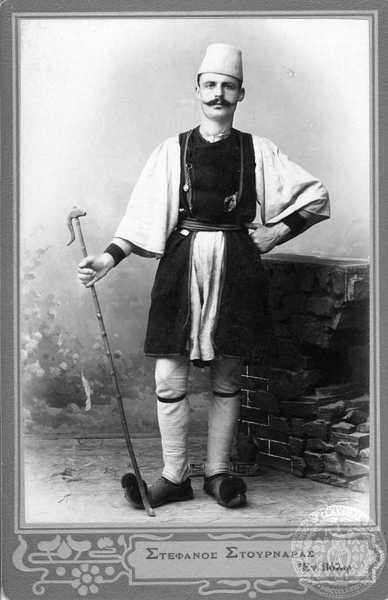 Lakis Pyrzas (1880-1947) (Λάκης Πύρζας) a Greek Macedonian soldier of the Macedonian Struggle, born in Florina (Greek: Φλώρινα) (Slavic: Lerin, Лерин) Greece.